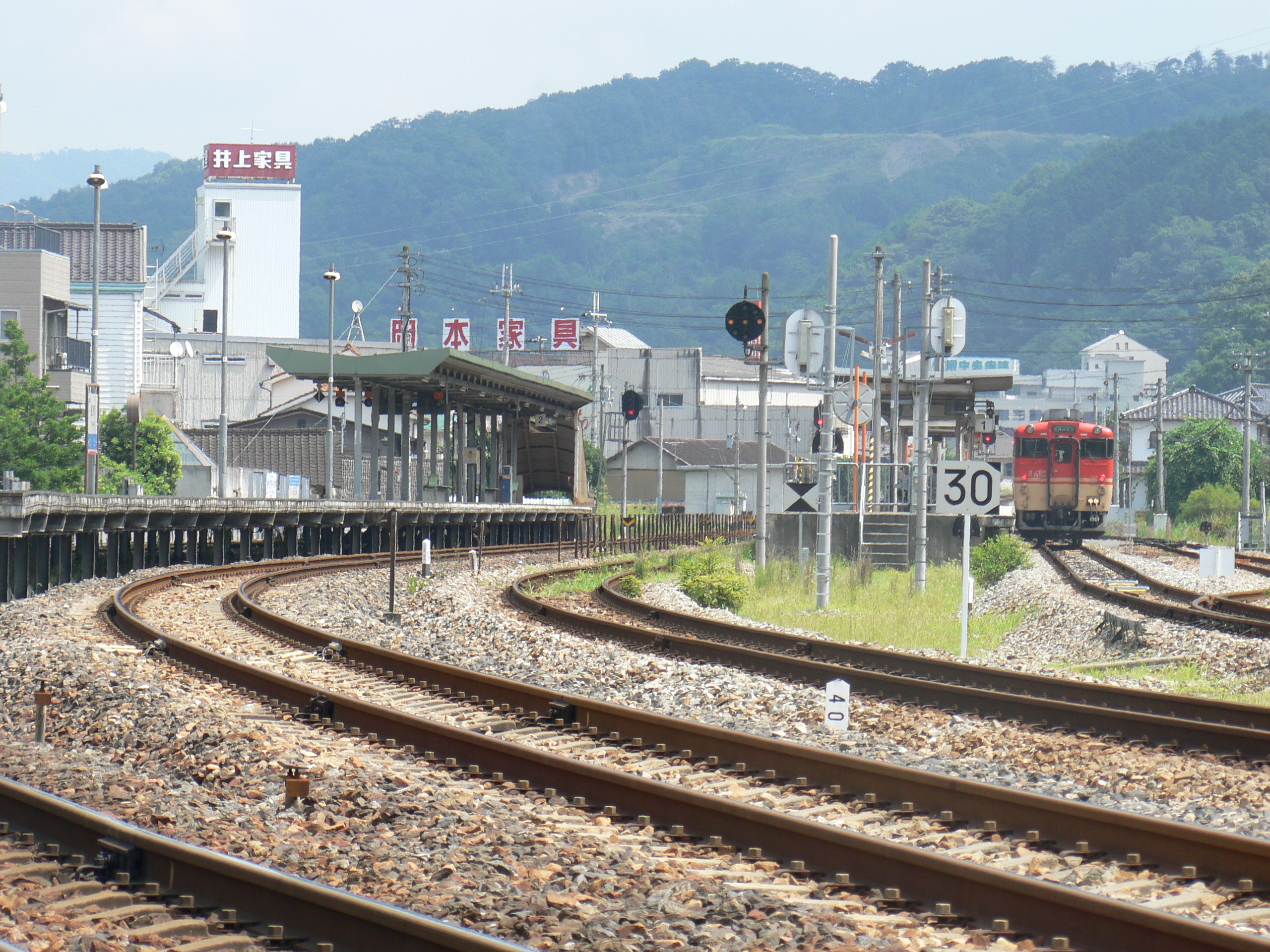 Sayo Station, Hyogo prefecture, Japan